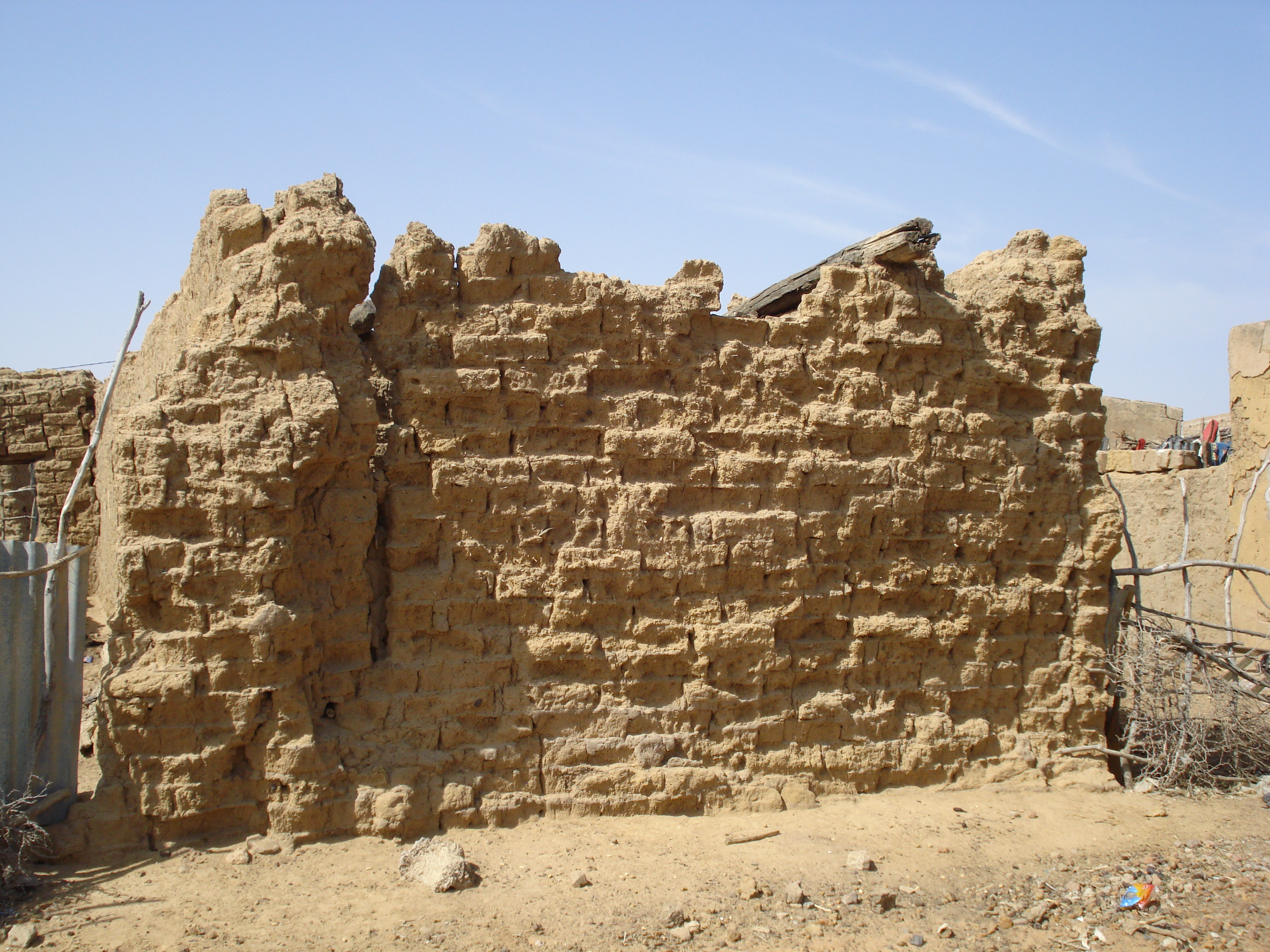 Mud dwelling at Agnam-Goly — in Senegal.